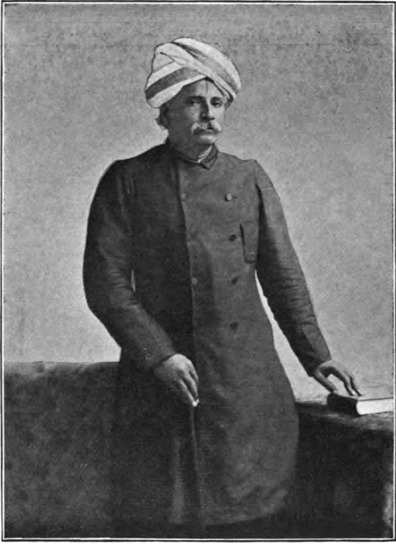 Potrait of Salem Ramaswami Mudaliar